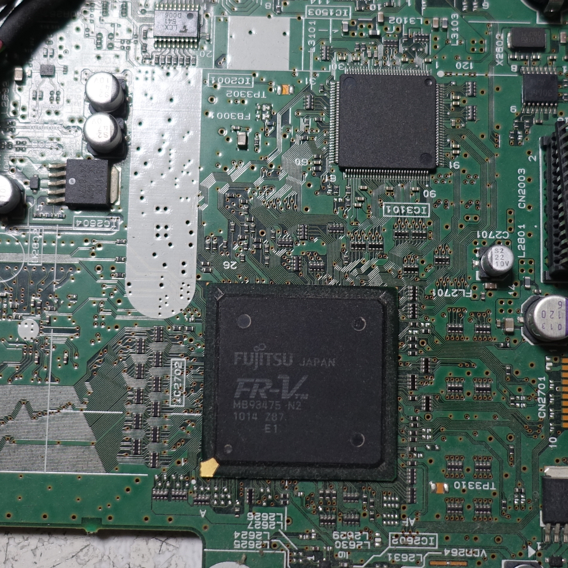 FR-V MB93475 microprocessor found on main board of DBZ-RX105 BD/HDD recorder.